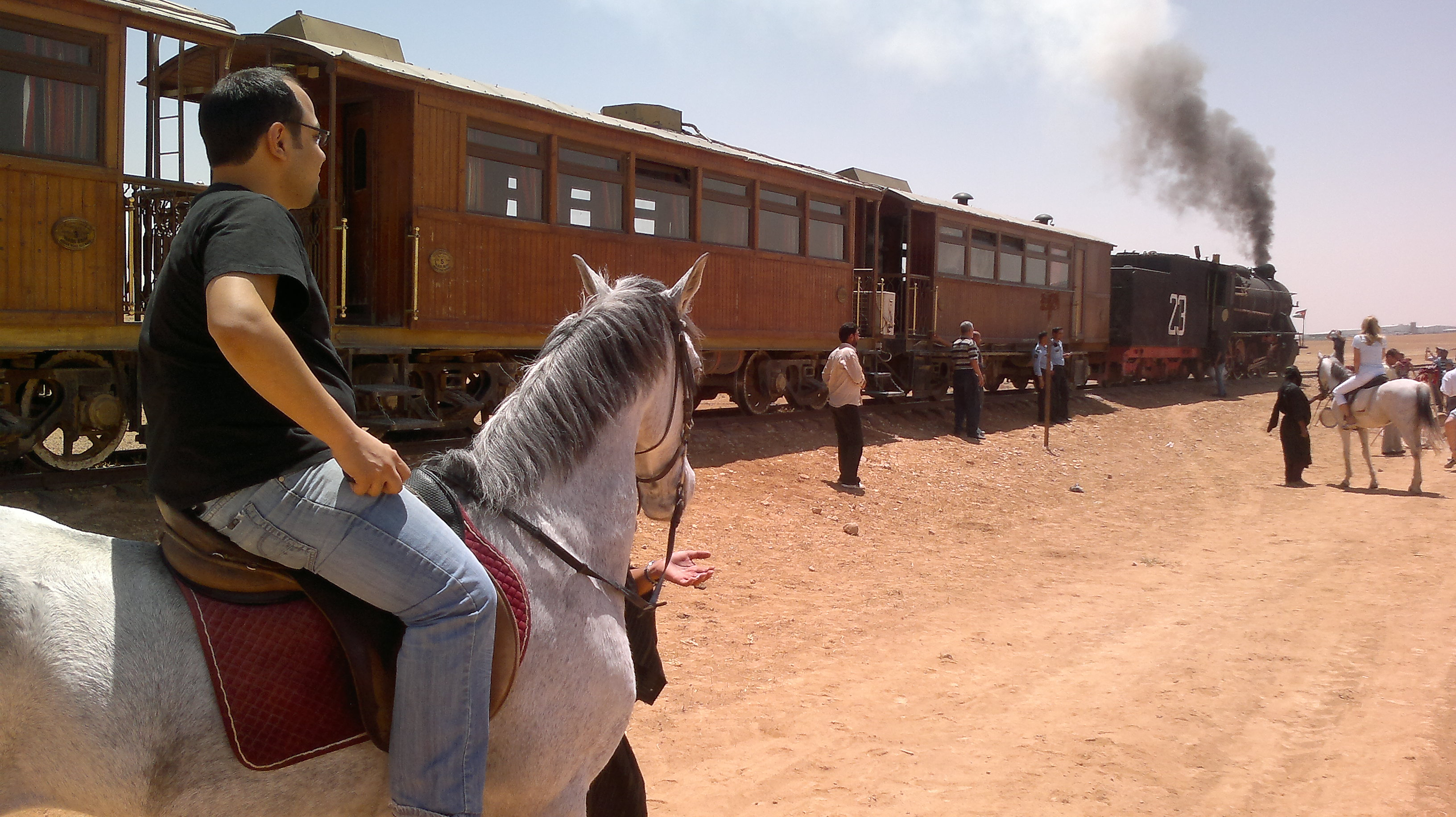 Hejaz railway between Amman and Jeeza in Jordan